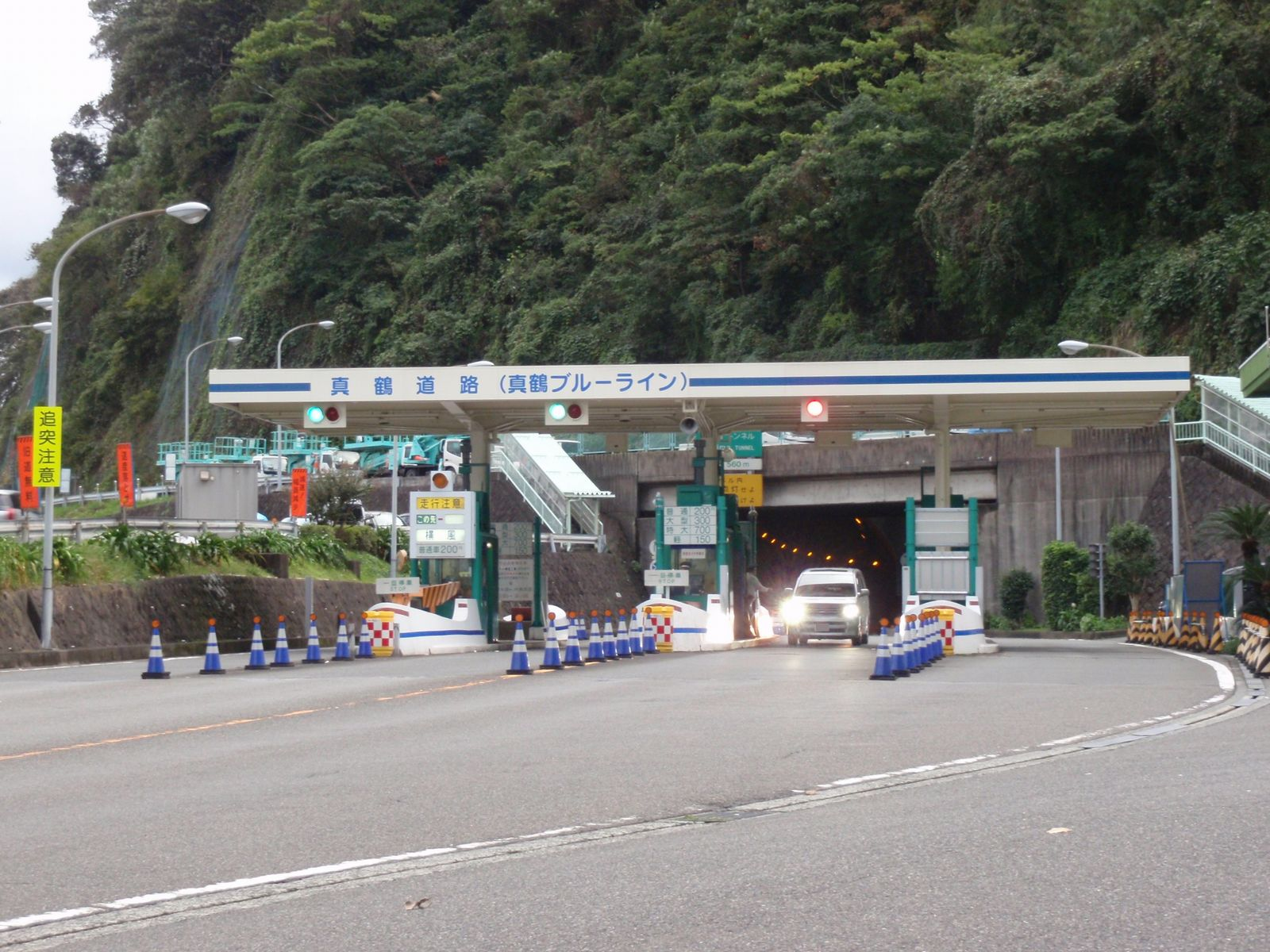 Toll gate of Manazuru Road